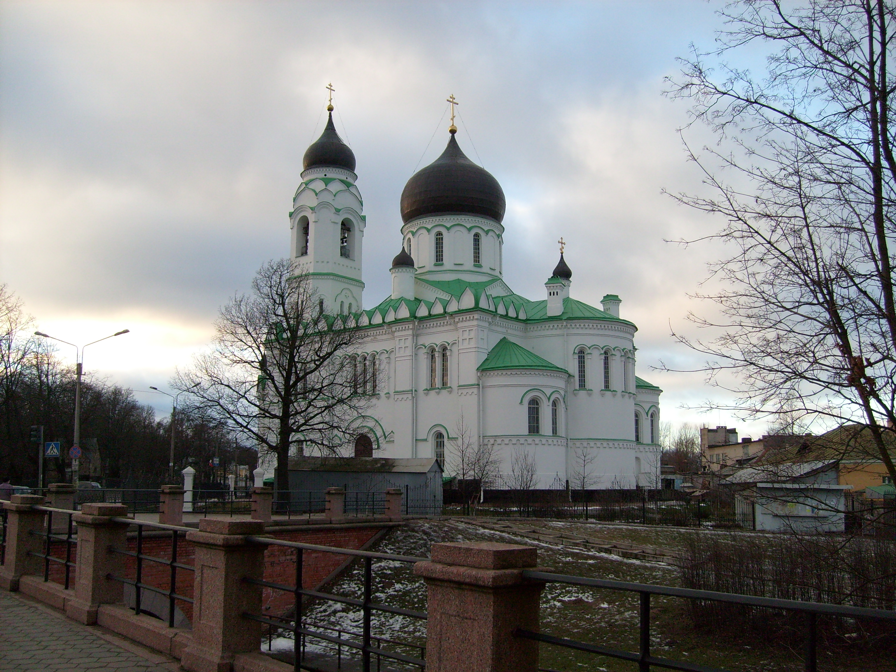 Lomonosov (Russia)